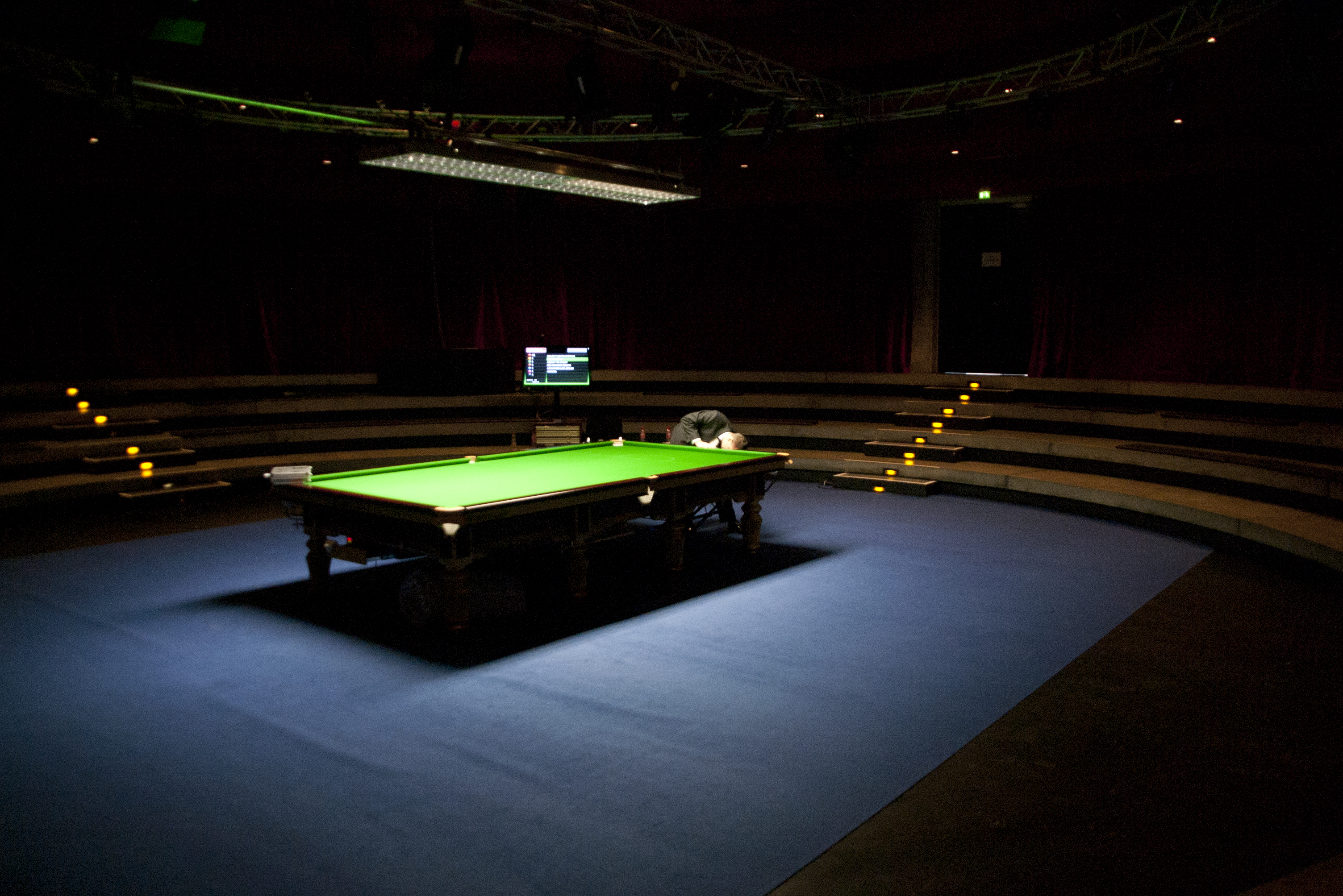 Little Arena with table #8